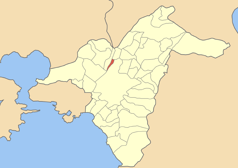 Locator map of Nea Chalkidona municipality (Δήμος Νέας Χαλκηδόνος) in Athina Nomarchia (Νομαρχία Αθηνών) in Greece.